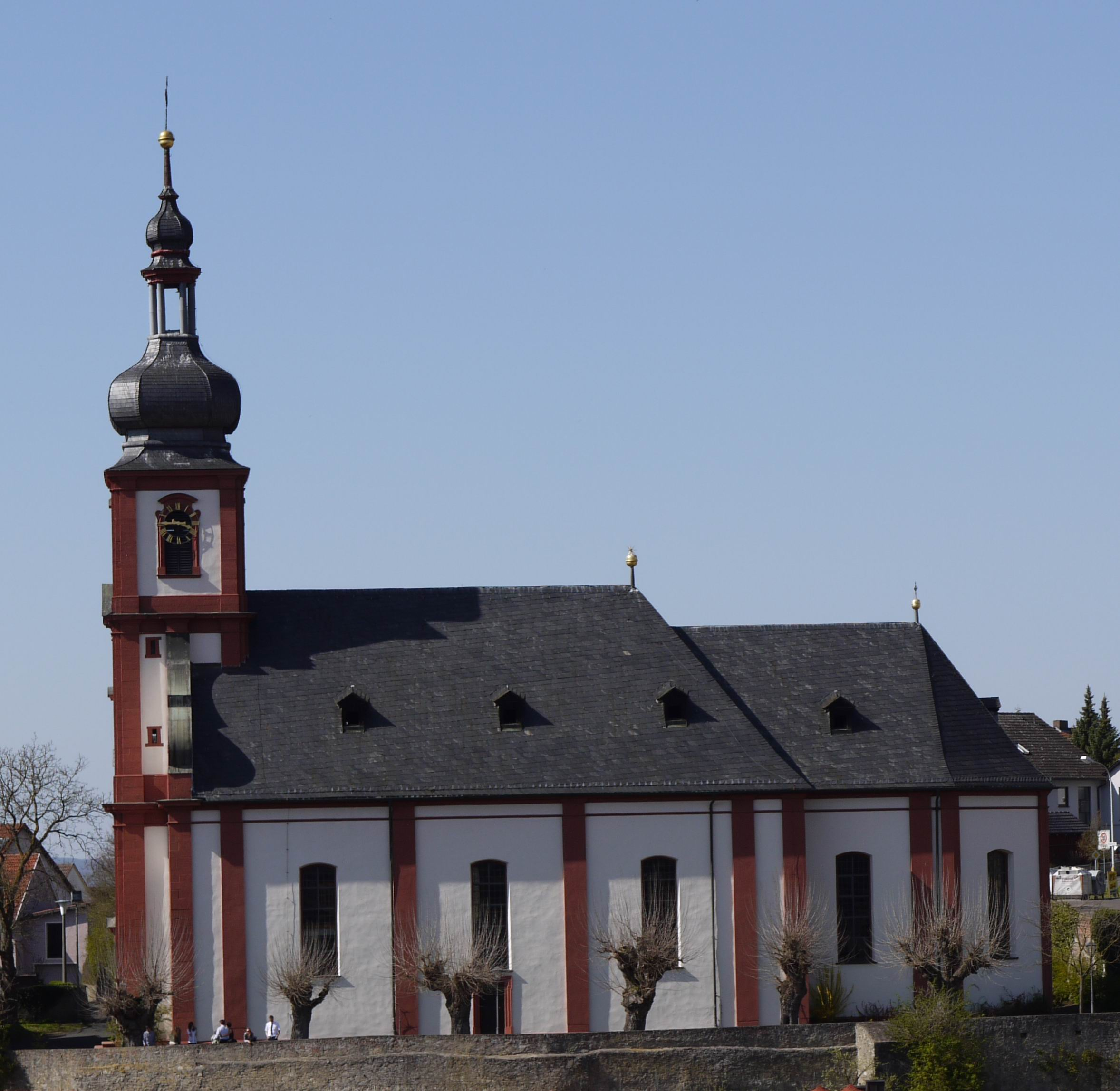 church in Retzbach